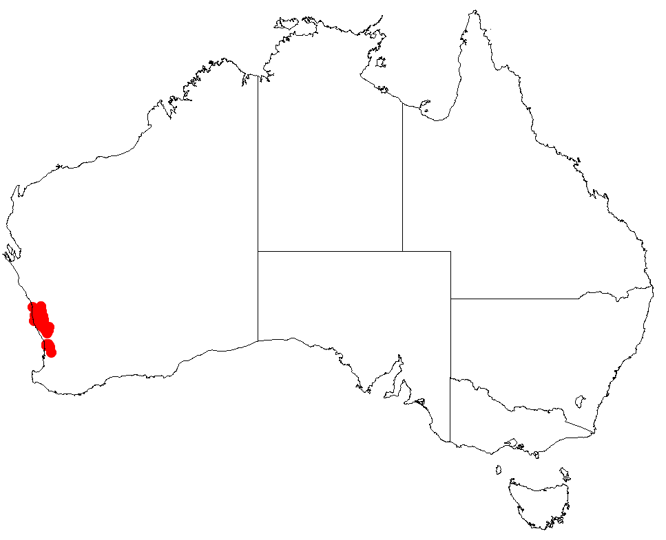 Hakea conchifolia Occurrence data downloaded from Australasian Virtual Herbarium on 22 November 2018 using